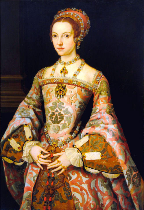 A three-quarter-length portrait, standing, hands clasped in front of her, and wearing a sumptuous brocade dress and jewellery. This is a cut-down seventeeenth or eighteenth copy of a lost portrait once in the Royal Collection and a full-length version, attributed to Master John, of the same sitter is in the National Portrait Gallery, London (NPG 4451).